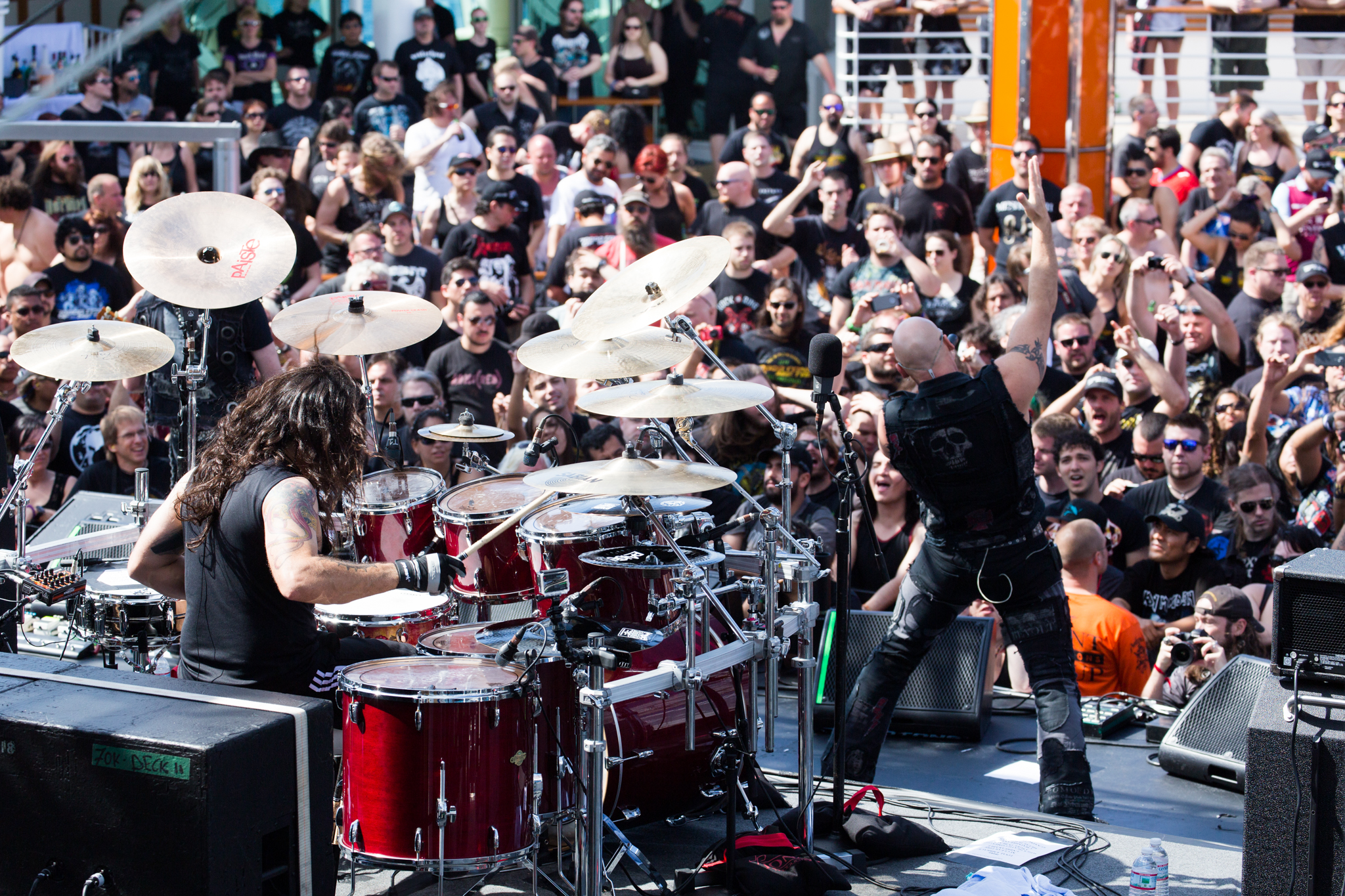 Primal Fear performing at 70.000 tons of metal, january 2015